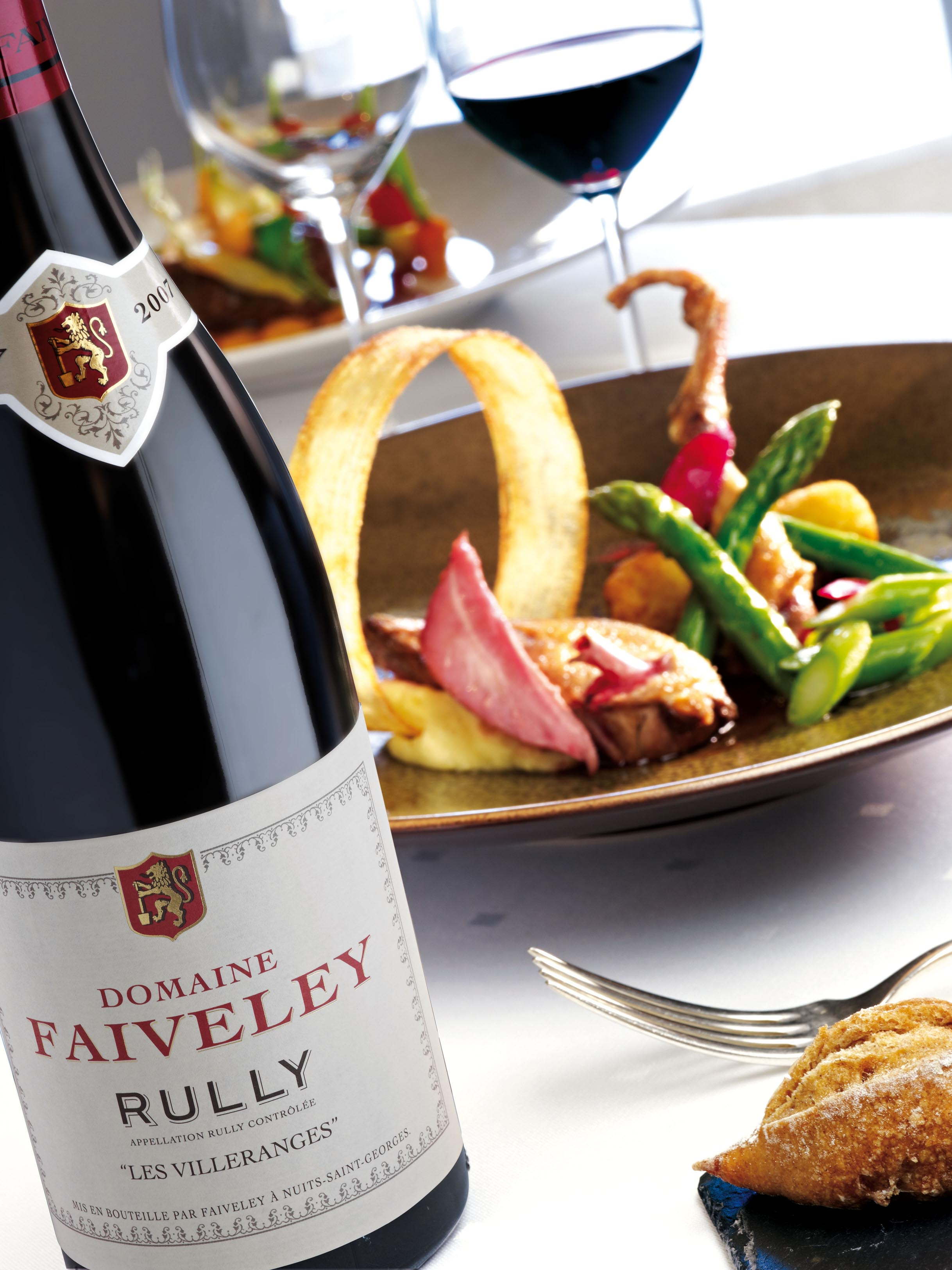 Bottle of Rully red wine